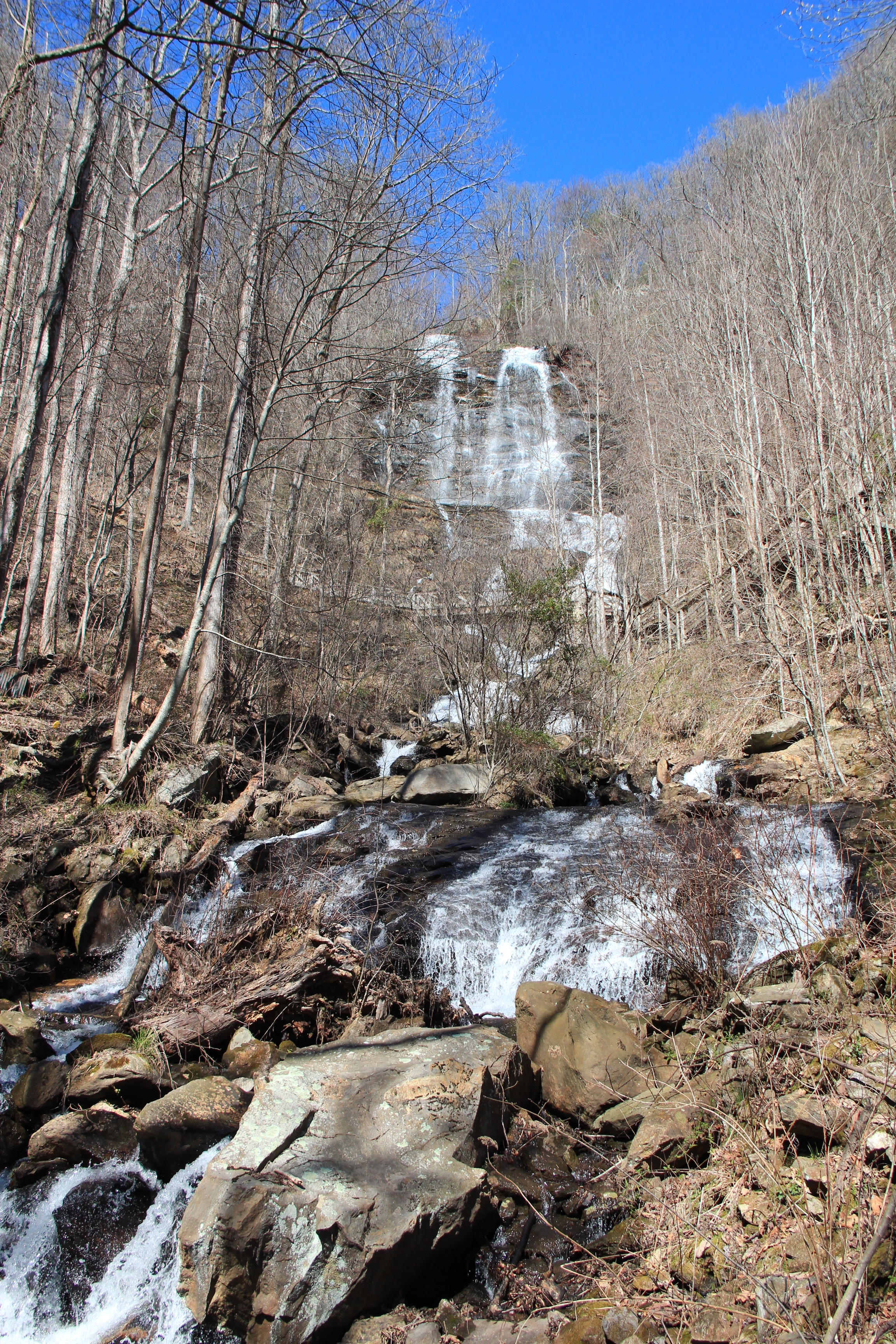 Amicalola Falls, view from bottom. Amicalola Falls State Park, Georgia, USA